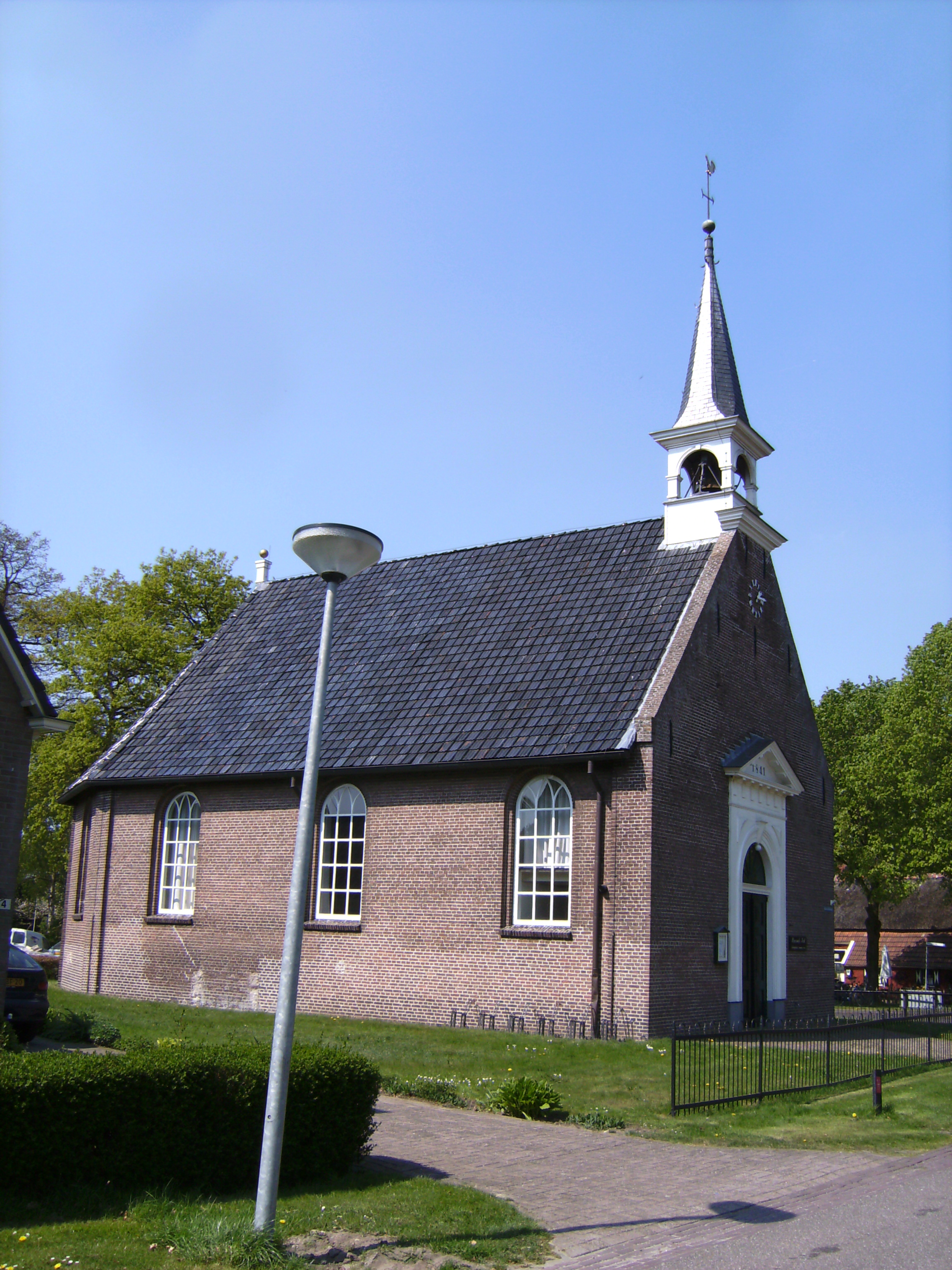 Eext, chapel